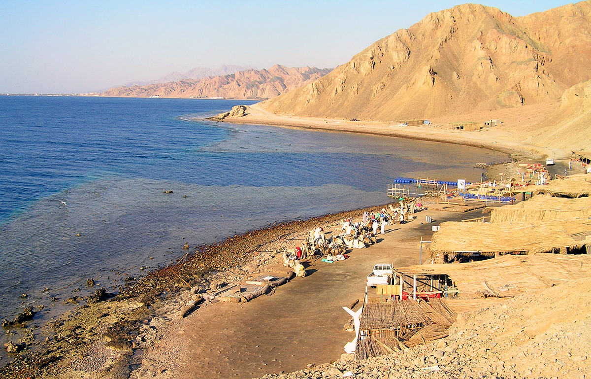 The famous Blue Hole of Dahab by Gustavo Gerdel